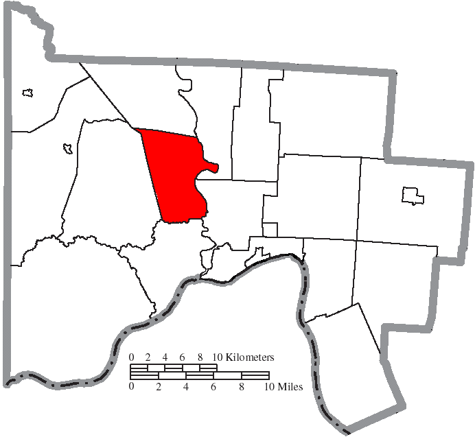 Map of the municipal and township boundaries of Scioto County, Ohio, United States, as of the 2000 census, with the location of Rush Township highlighted. Township borders are shown only in unincorporated areas in order to differentiate incorporated and unincorporated areas more clearly.